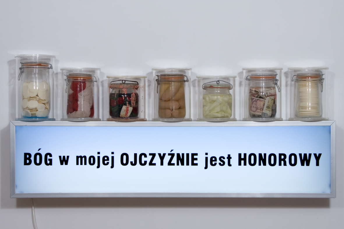 "B.H. i O. (BÓG w mojej OJCZYŹNIE jest HONOROWY)" by Robert Rumas (Gdańsk) from the permanent collection of Zachęta National Gallery of Art (Warsaw, Poland)